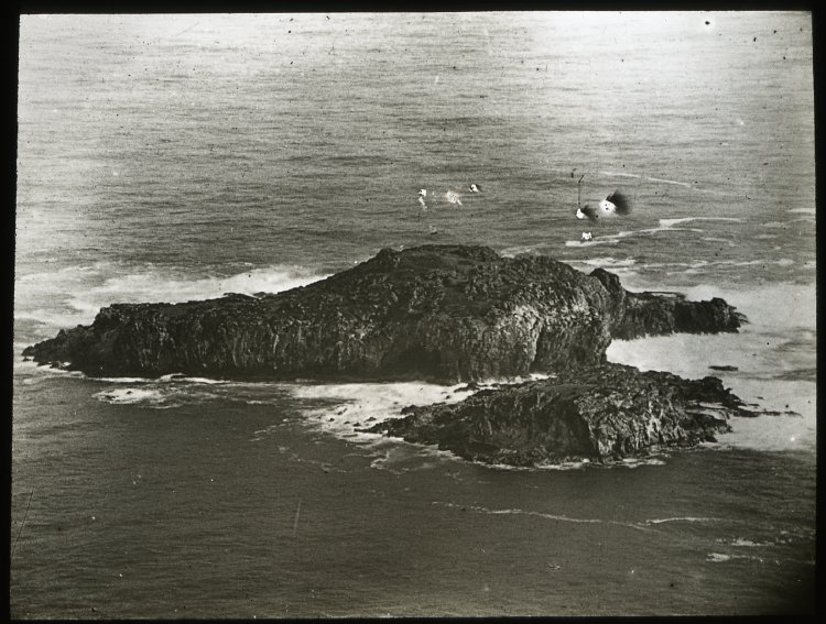 Lantern Slide (black and white); view of the islet Motu Nui and Moto Iti; Orongo, Easter Island.